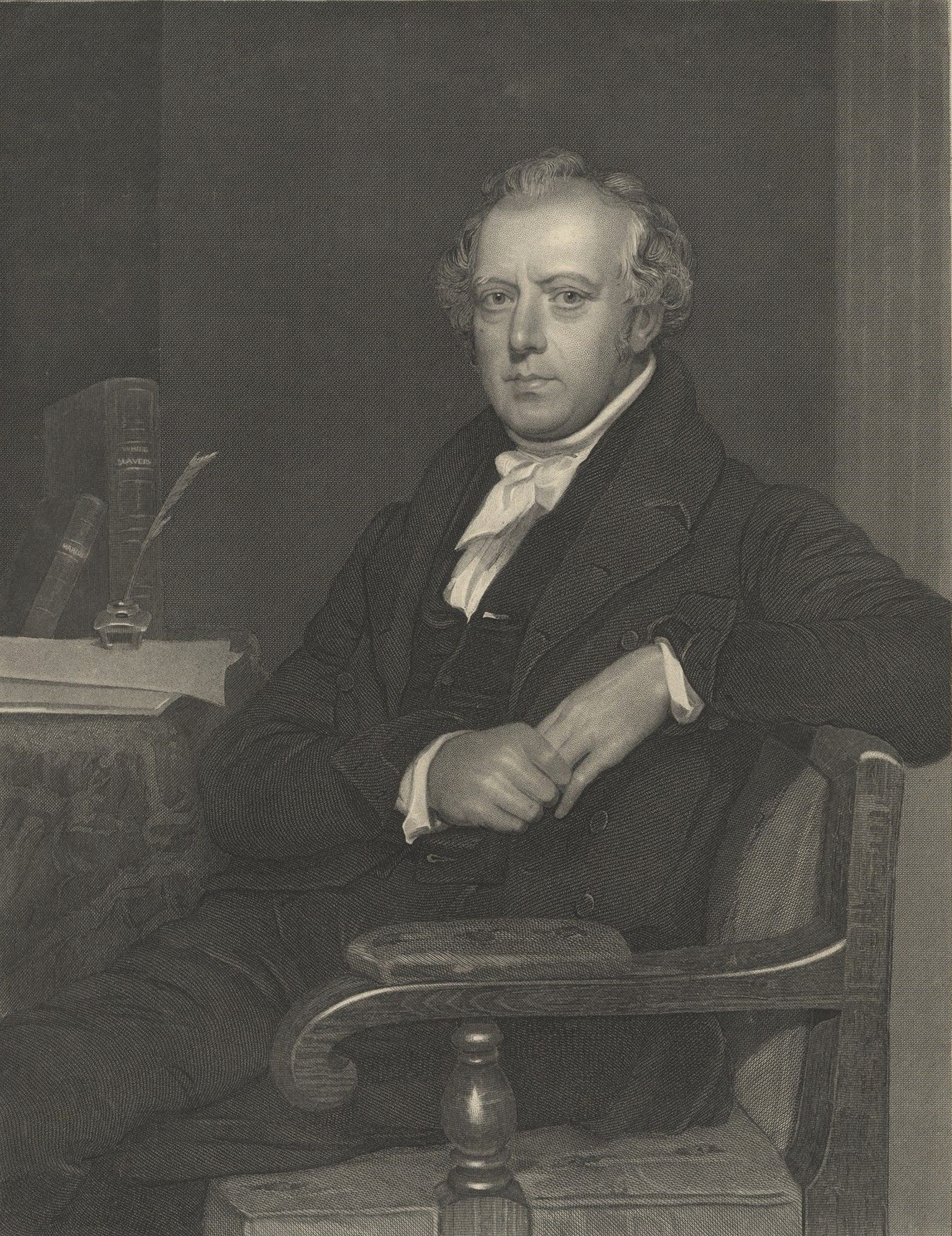 Portrait of Richard Oastler, engraved by James Posselwhite after a painting by Benjamin Garside. At Oastler’s side are two volumes entitled White Slavery and Marcus. Commissioned by Feargus O’Connor, this engraving was distributed with copies of the Northern Star, 12 December 1840